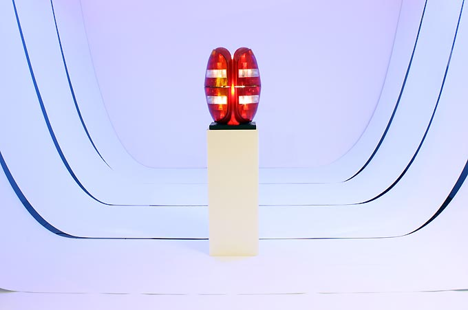 Ligth art object "Vooo brancusi" by Alexandre Murucci, Brasilia. Shown at the Light art Biennale Austria 2010